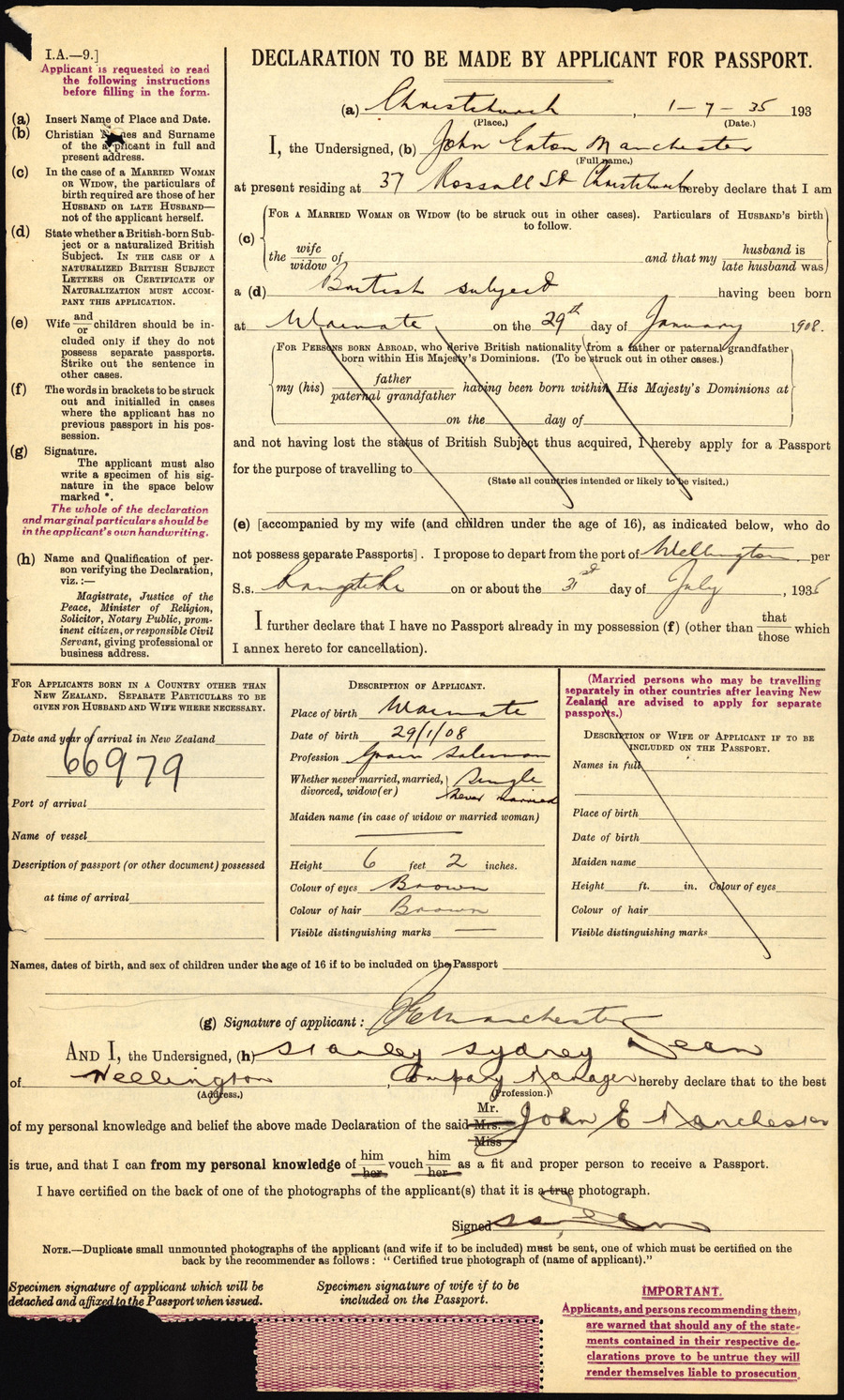 Archives New Zealand Reference: ACGO 8333 IA1 1350 / 15/11/59182